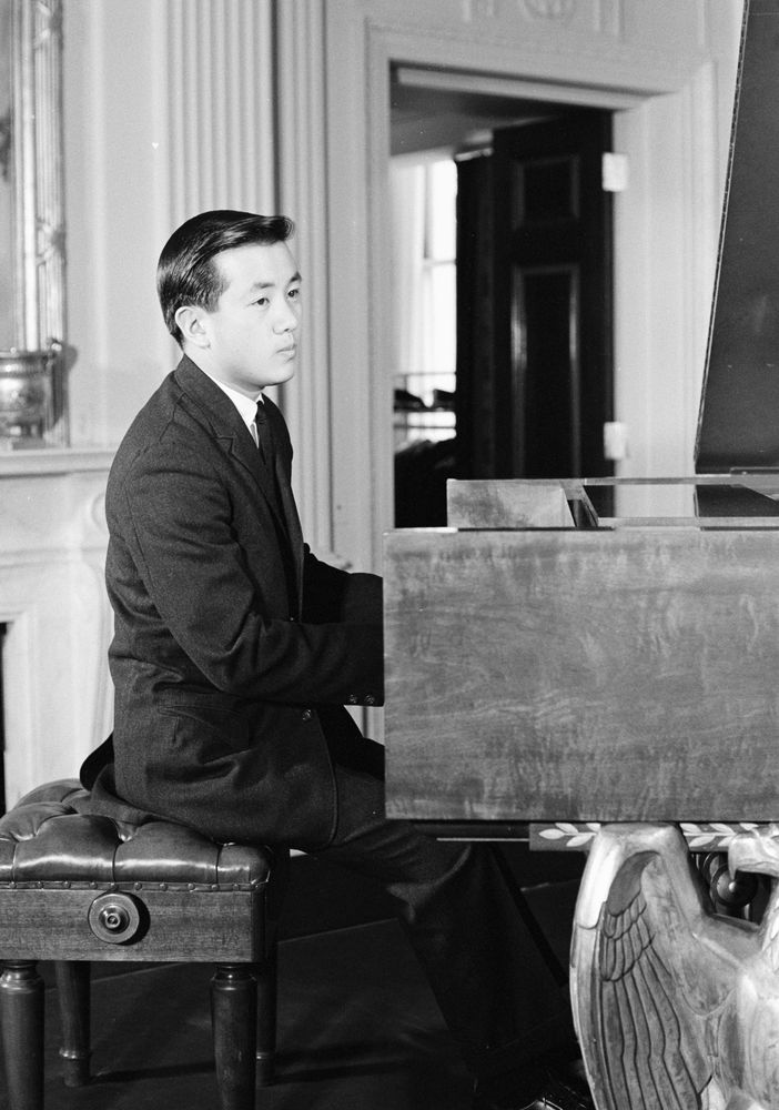 Korean pianist, Tong-il Han, plays onstage in the East Room of the White House, Washington, D.C.; Mr. Han performed as part of the fifth installment of First Lady Jacqueline Kennedy's Musical Programs for Youth by Youth. Mrs. Kennedy held the event for the children of ambassadors, members of the Cabinet, and State Department officials living in Washington, D.C.